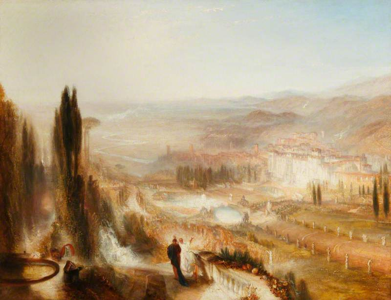 Cicero at His Villa at Tusculum